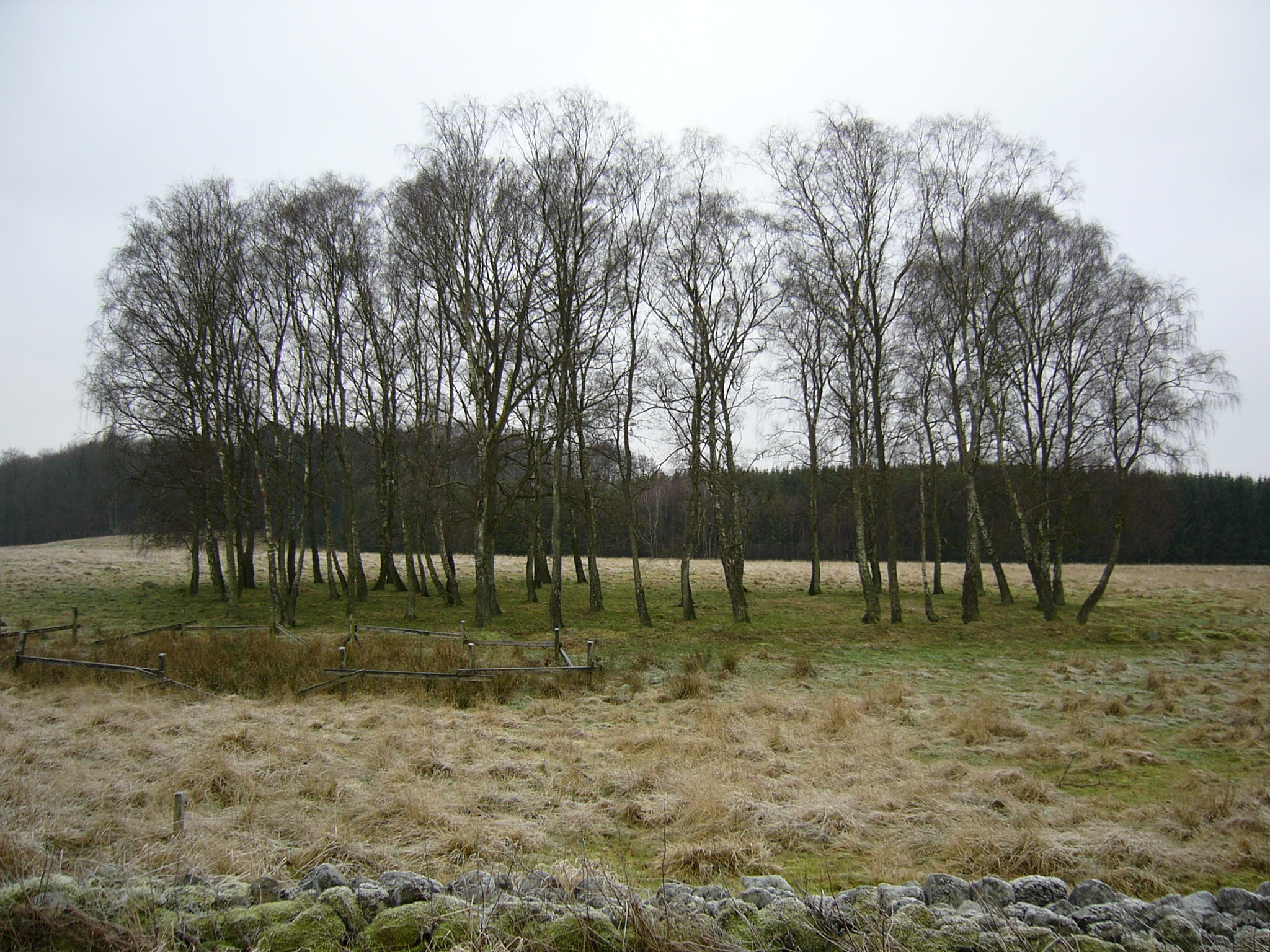 A grove of birch trees in Skåne December 31, 2008.